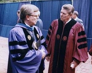 James B. Holderman with then-US President Ronald Reagan in 1983.